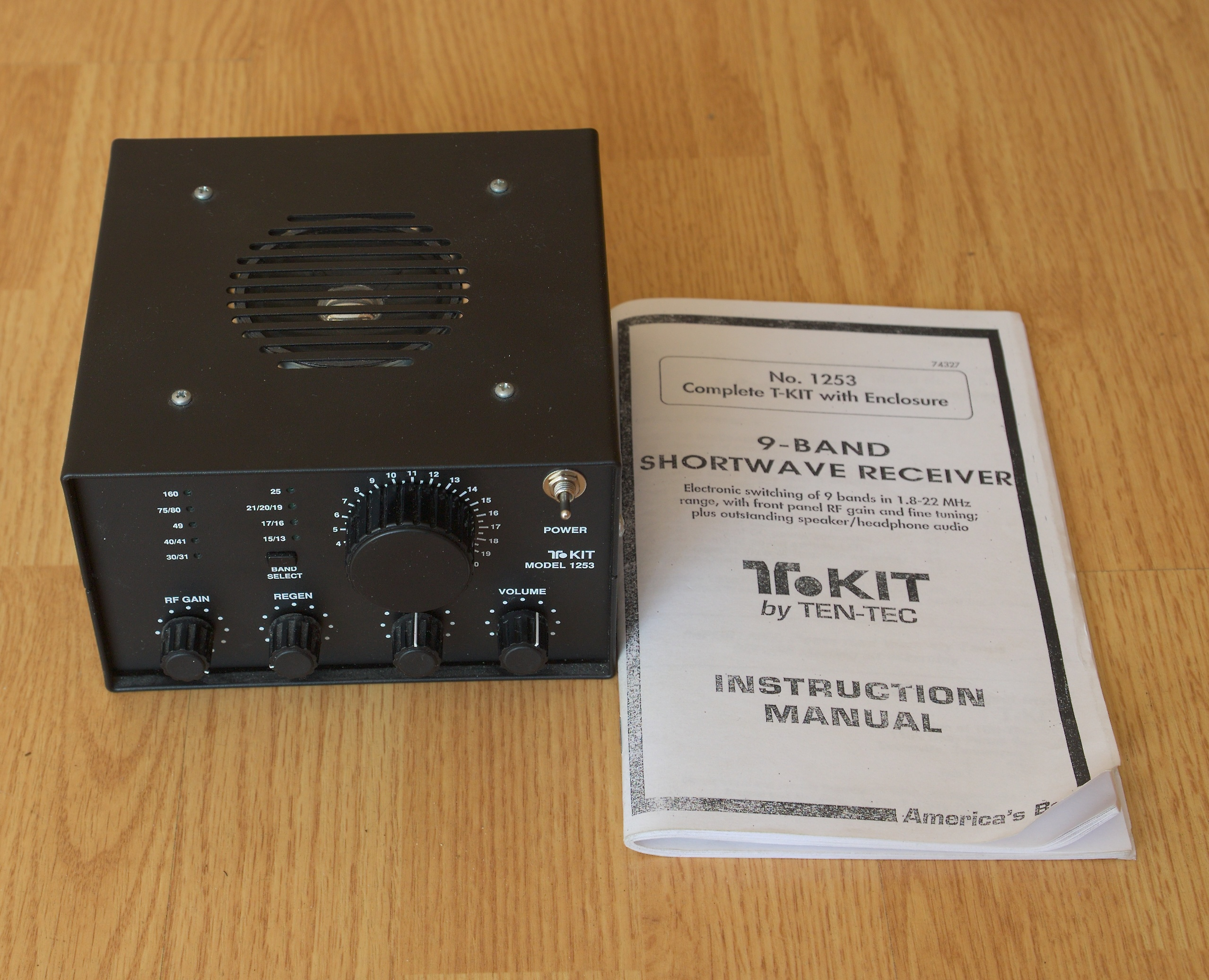 FET Audion Ten-Tec Model 1253